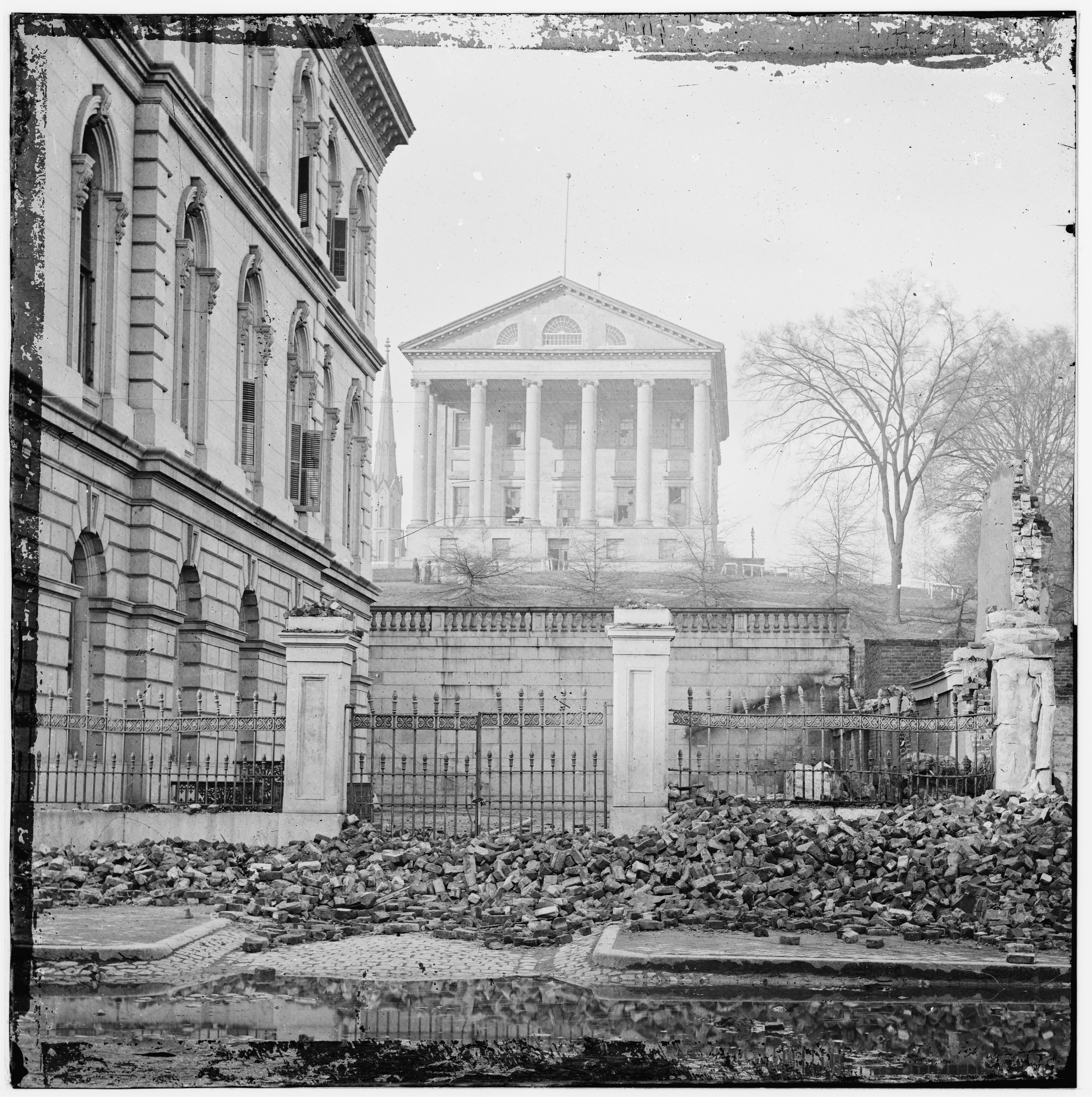 The damaged Richmond Capitol Building in April 1865 after the city's capture by U.S. forces. p. 303.